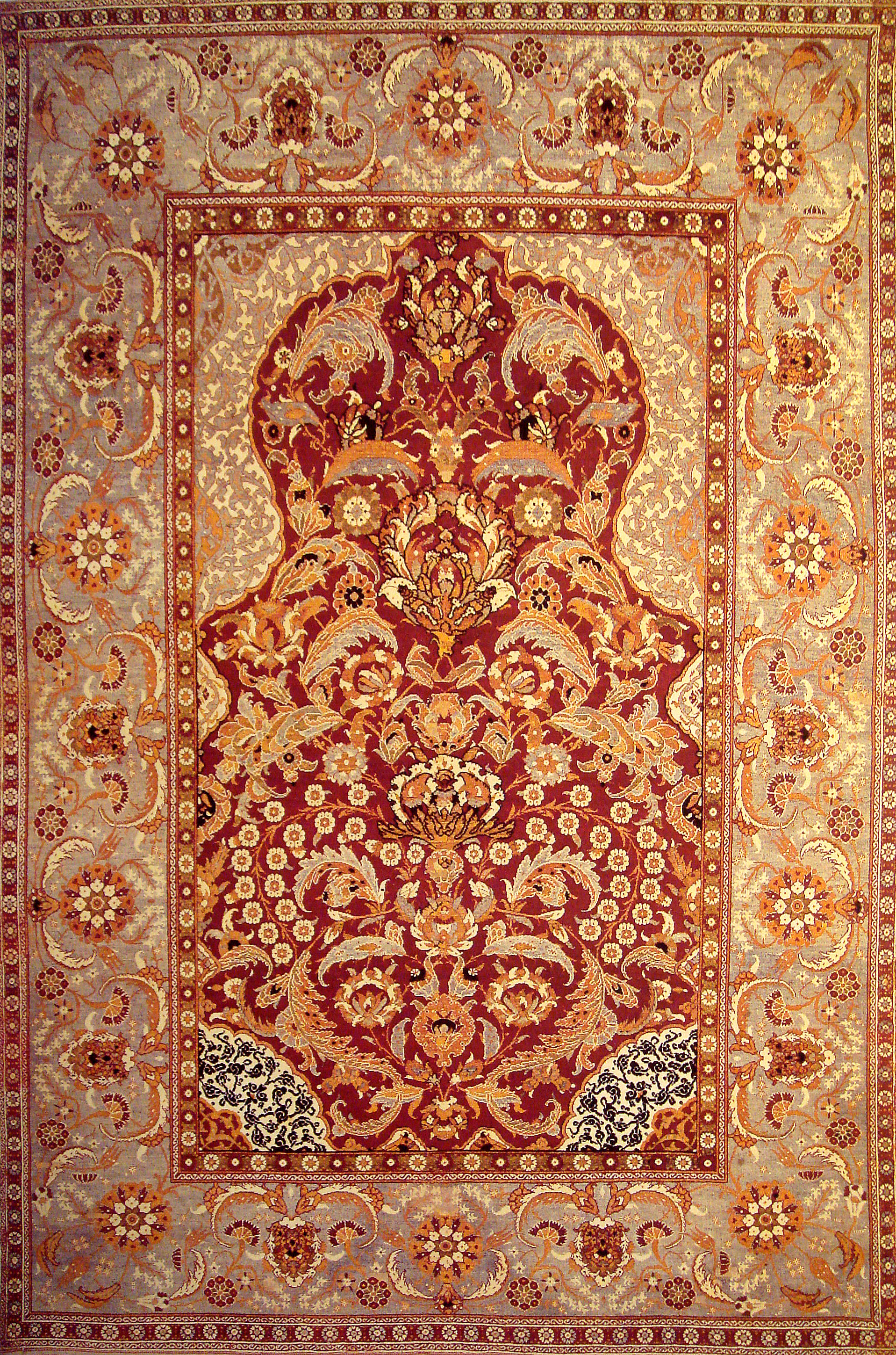 Ottoman_Court_carpet_late_16th_century_Egypt_or_Turkey